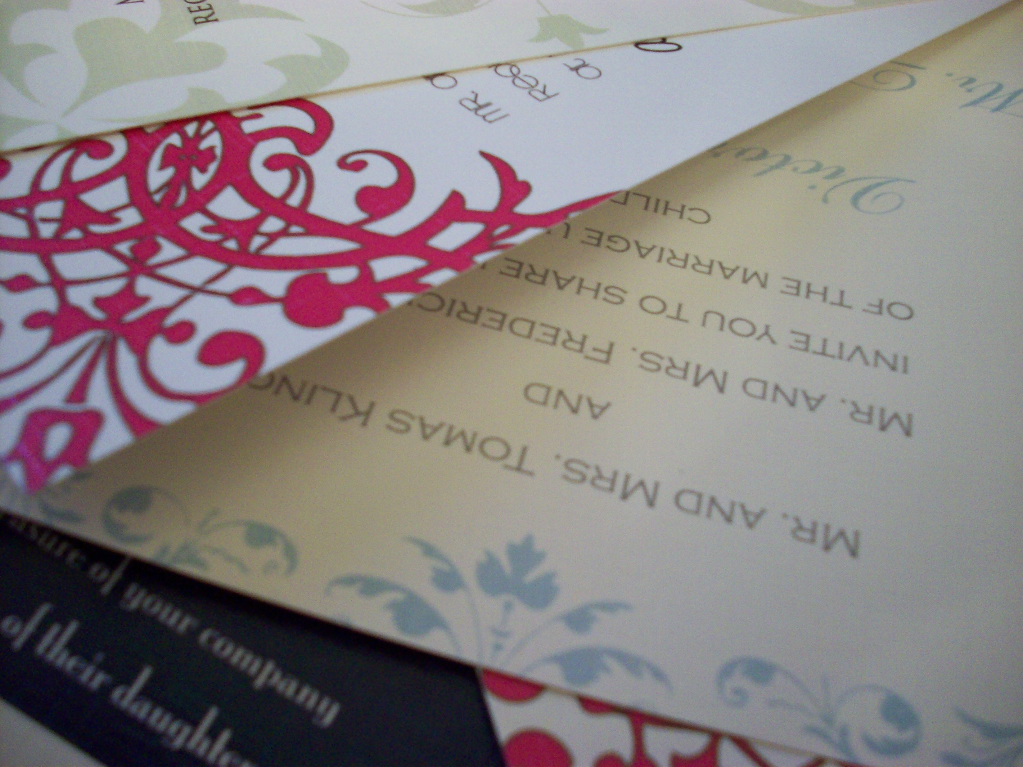 Author: Red Bumble Bee Url: This is property of Red Bumble Bee. Rationale for use includes modification of the wikipedia article to include modern design wedding invitations.